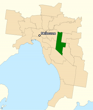 This image incorporates data that is: © Commonwealth of Australia (Australian Electoral Commission) 2009 Division of Chisholm 2010